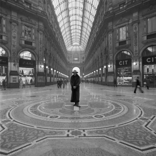 Portrait of Daniel Spoerri, Milano by Lothar Wolleh